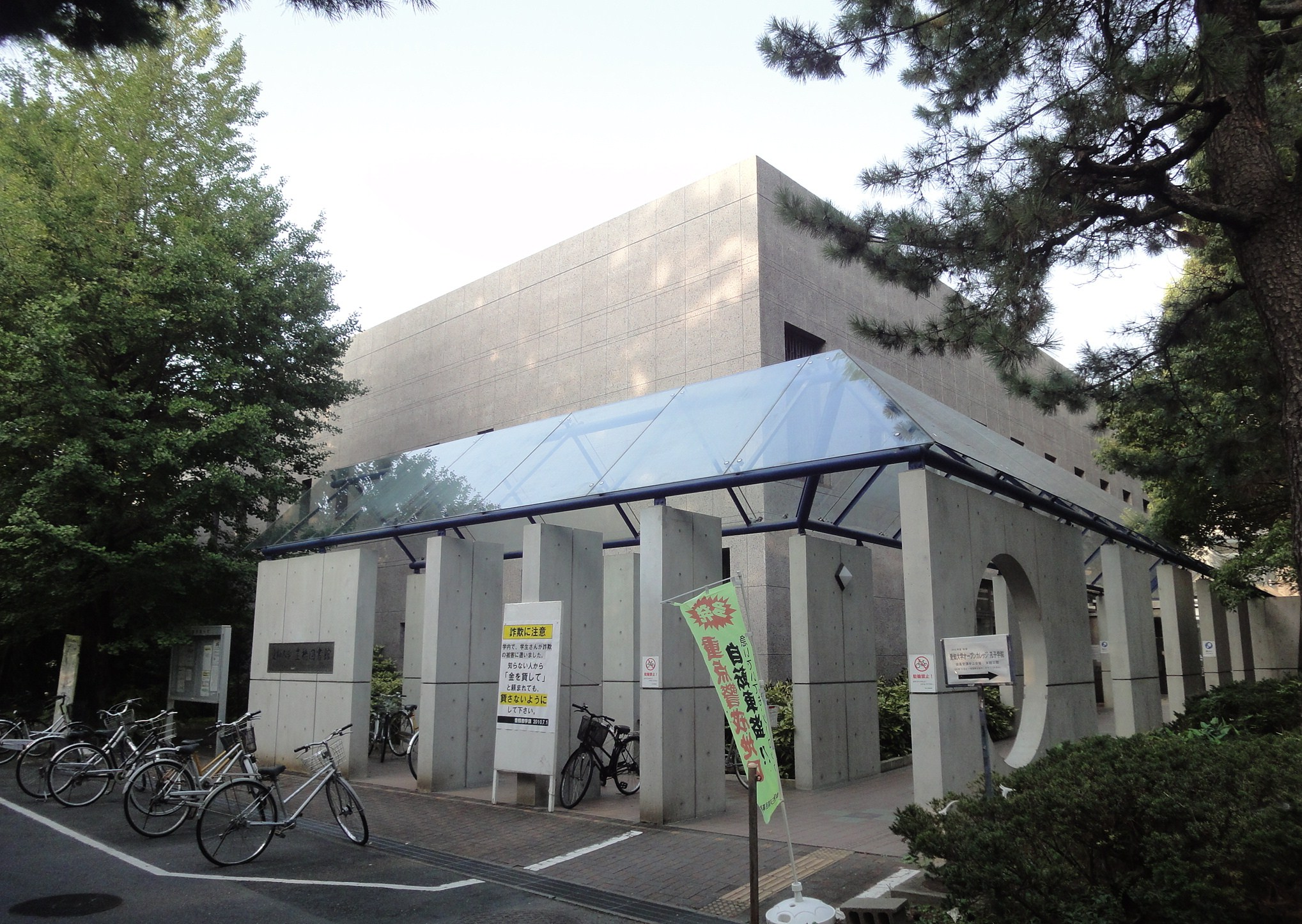 Aichi University Toyohashi Library